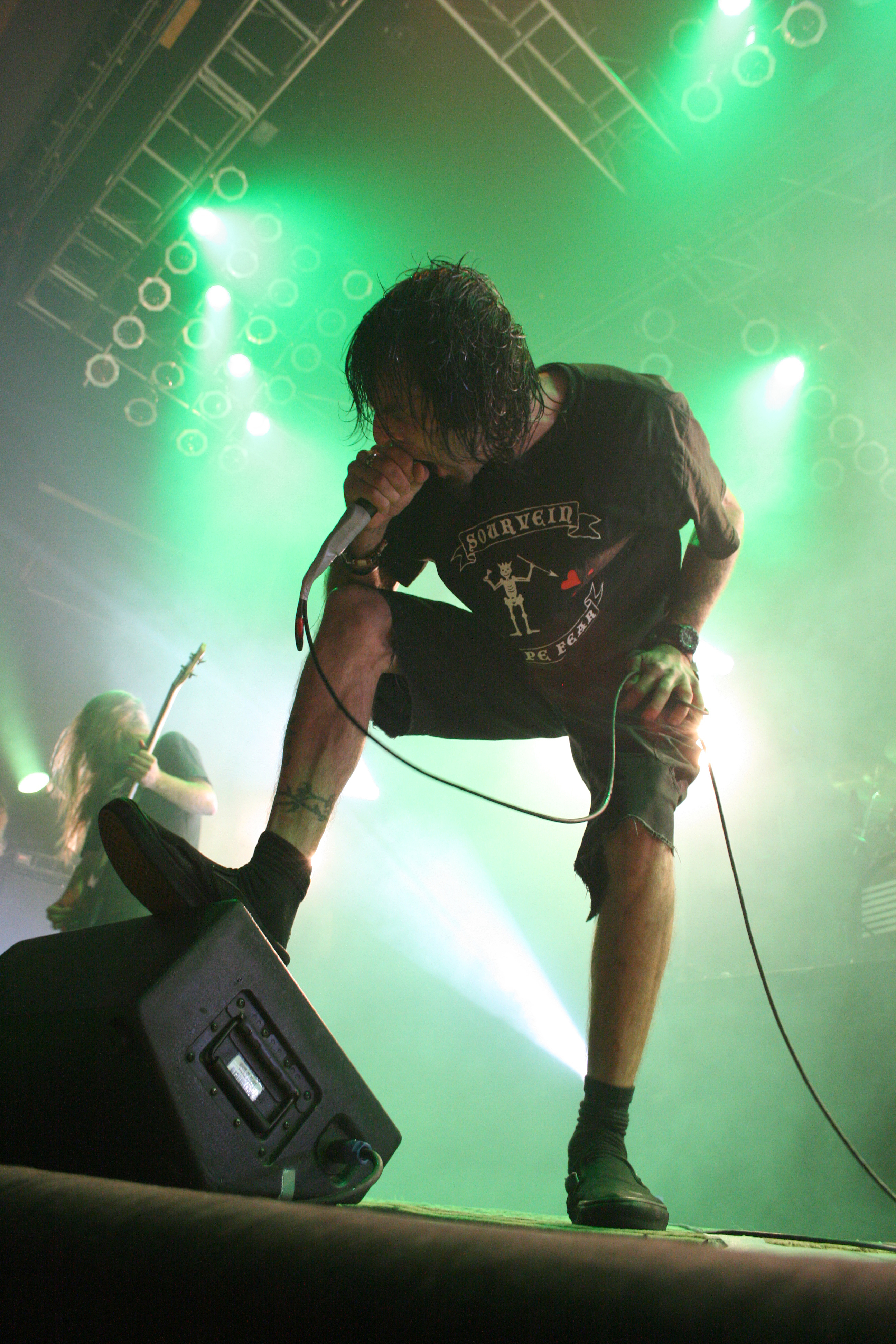 Randy Blythe of the band Lamb of God screams into the microphone during a concert at the House of Blues in Myrtle Beach, South Carolina.